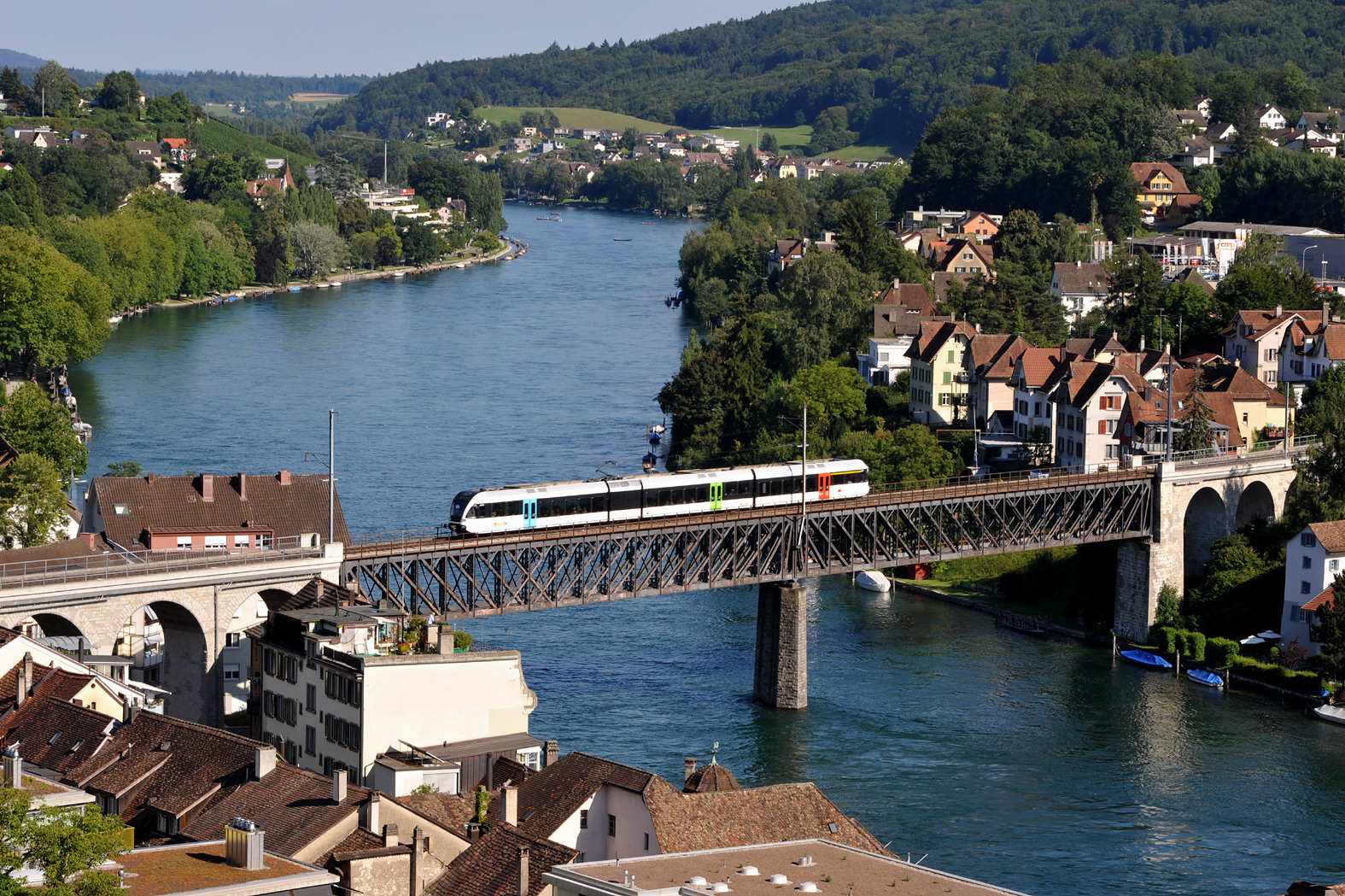 Railway bridge between Schaffhausen and Feuerthalen, view from the Munot; Schaffhausen and Zurich, Switzerland.